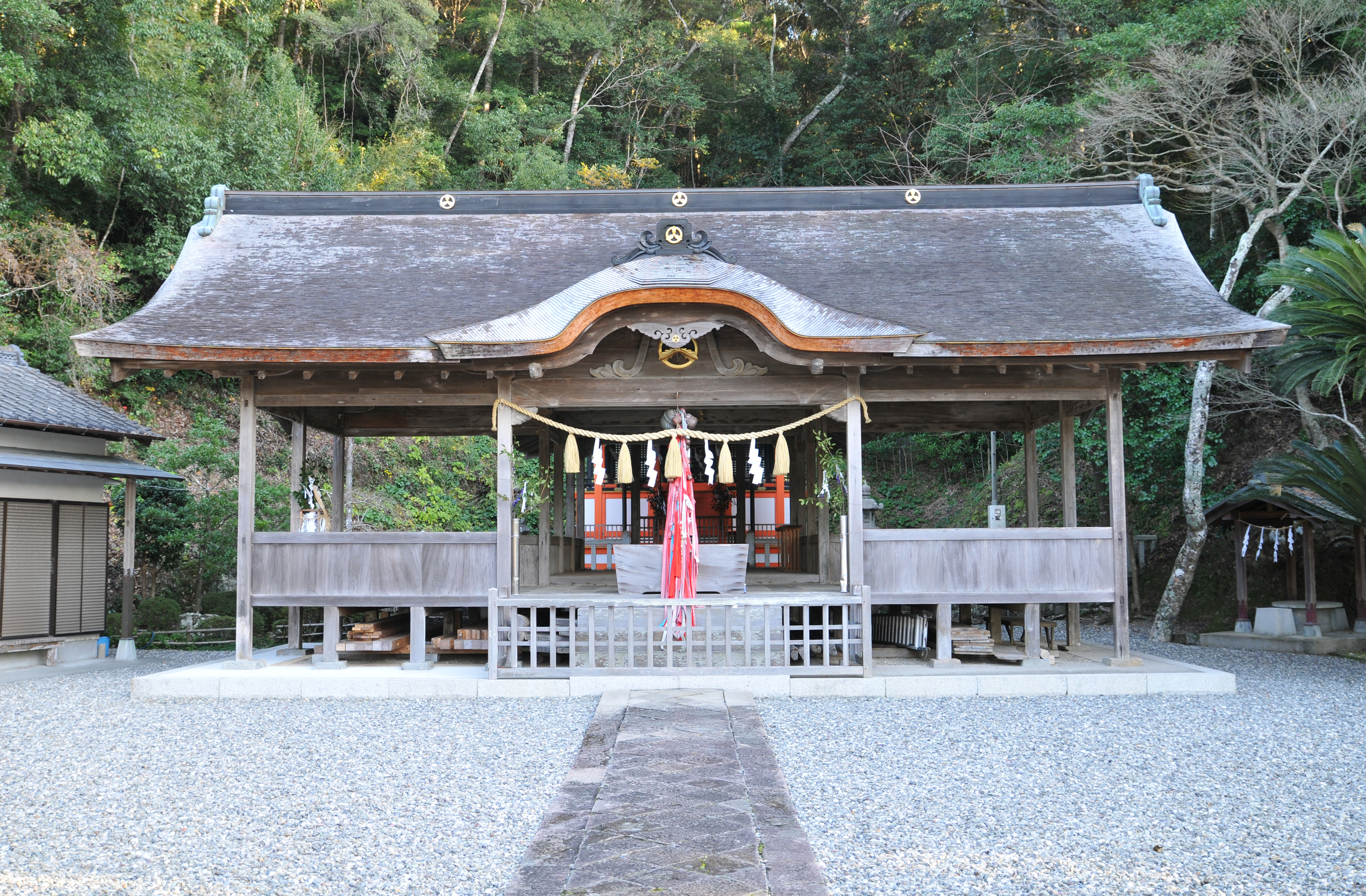 Worship hall(Japan's national important cultural property), Otonashi-jinja